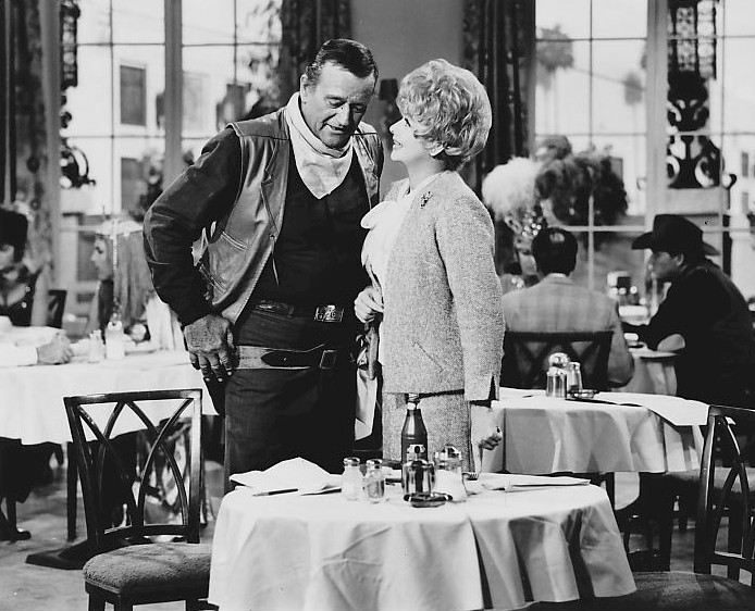 Photo of John Wayne and Lucille Ball from The Lucy Show. In this episode, Lucy manages to gain entrance to a movie studio commisary and has a chance to meet him. Before she's done, she almost ruins the movie Wayne had been working on.